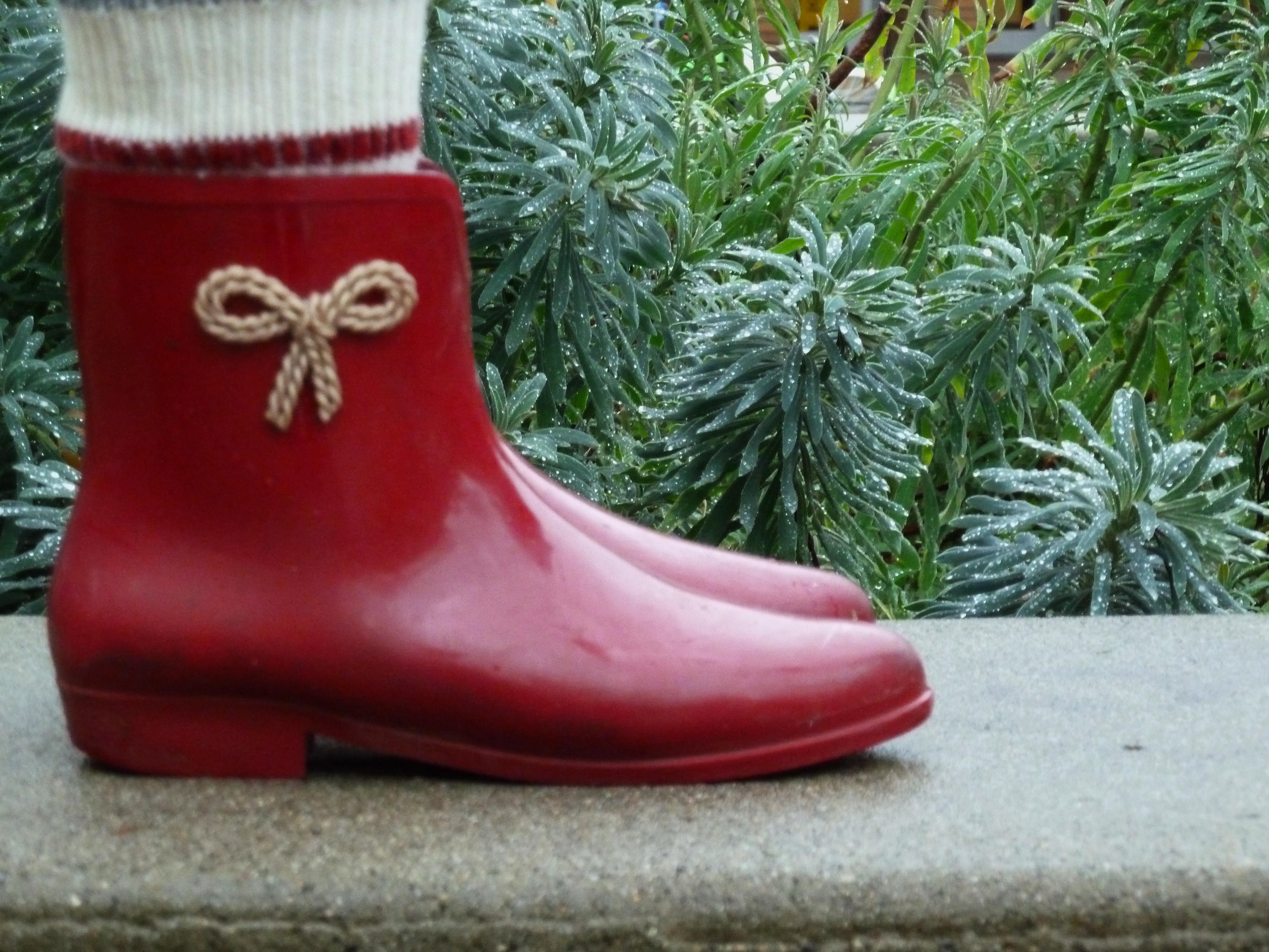 Person wearing short red rain boots in Vancouver